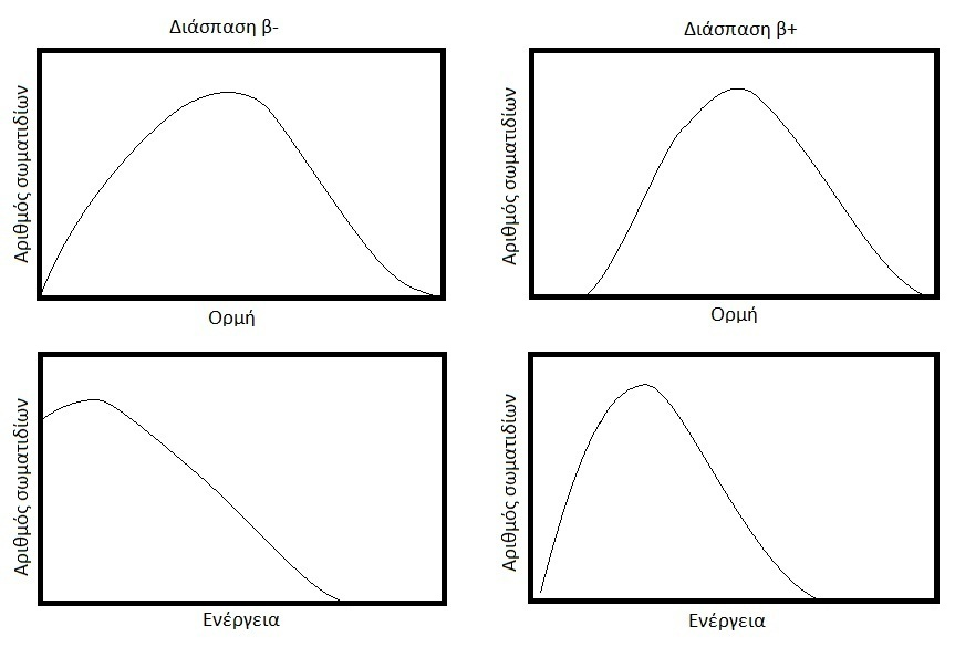 Typical graph of spectrum of energy and momentum of beta particles in beta decay. Ορμή=momentum, ενέργεια=energy, αριθμός σωματιδίων=number of particles, Διάσπαση=Decay